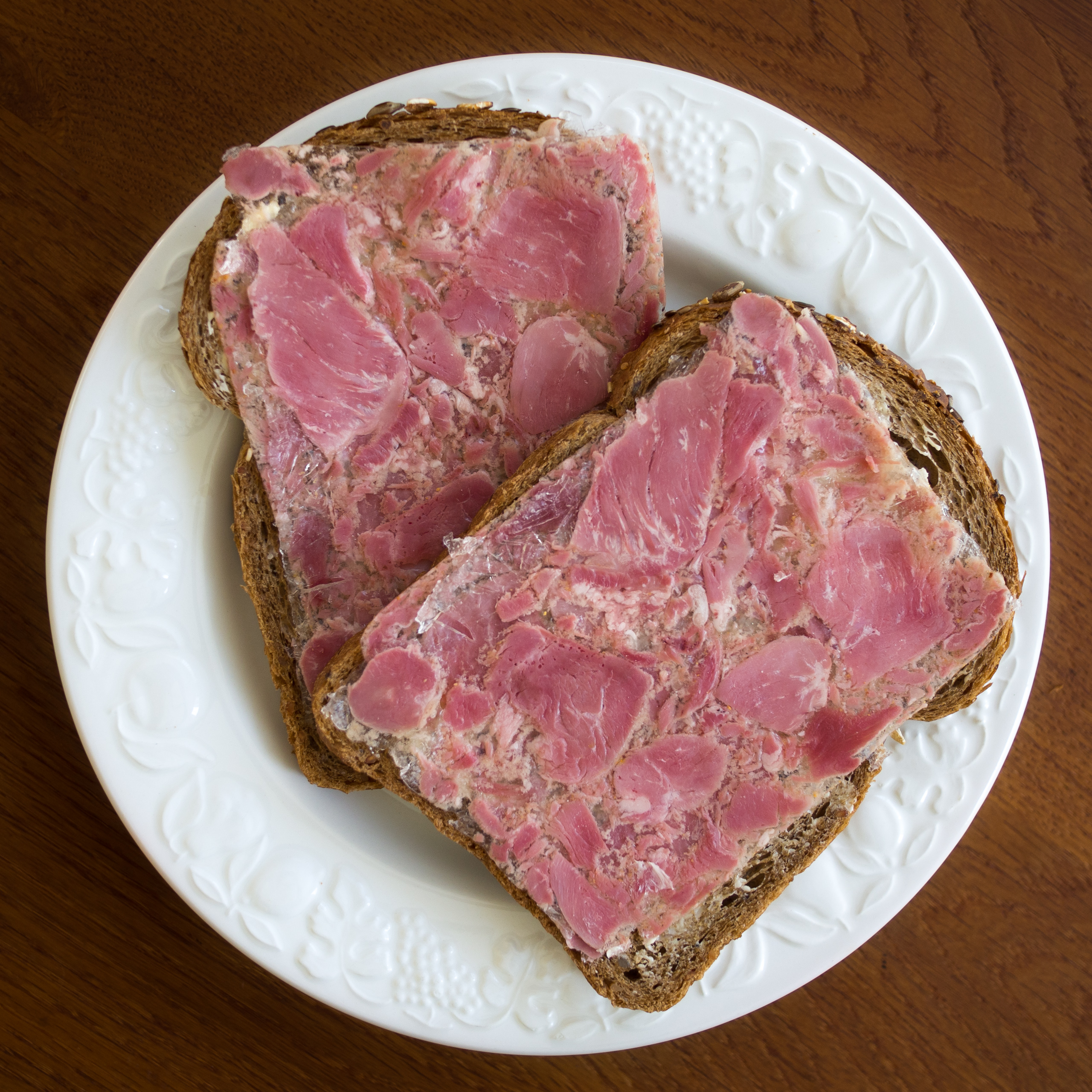 Commercially sold Dutch preskop (a type of head cheese) as a cold cut on bread.